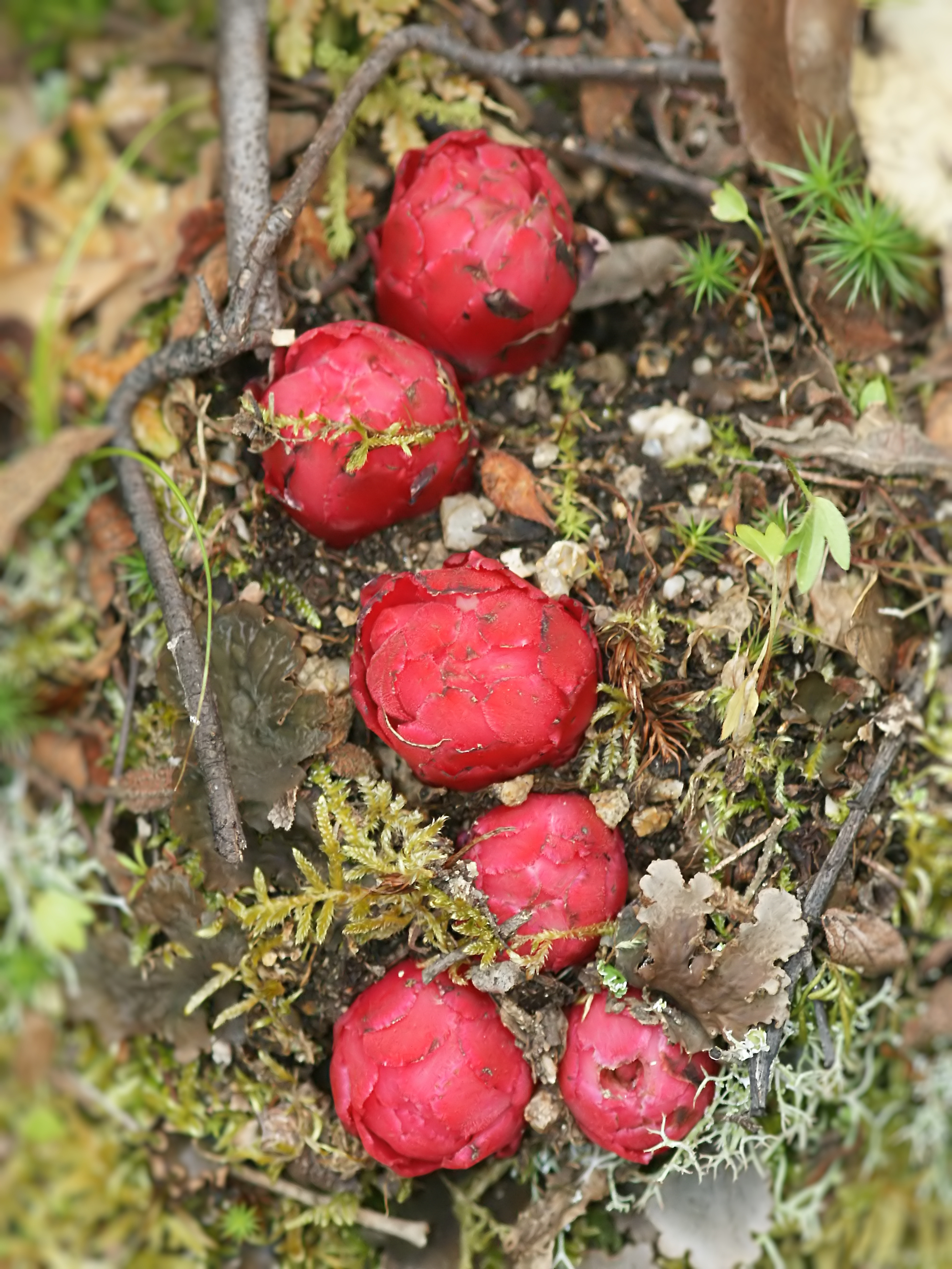 A chlorophyll lacking root-parasite of pink flowering Cistus bushes on the way to Su Gorropu, Sardinia, Italy